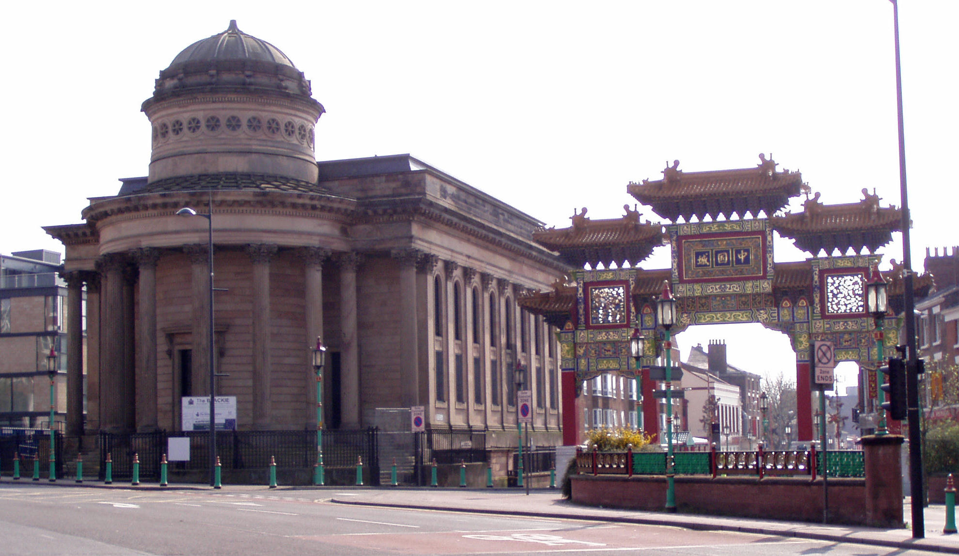 The Blackie formerly Congregational Church (1841) (grade Grade II listed ) and the Chinese gate.